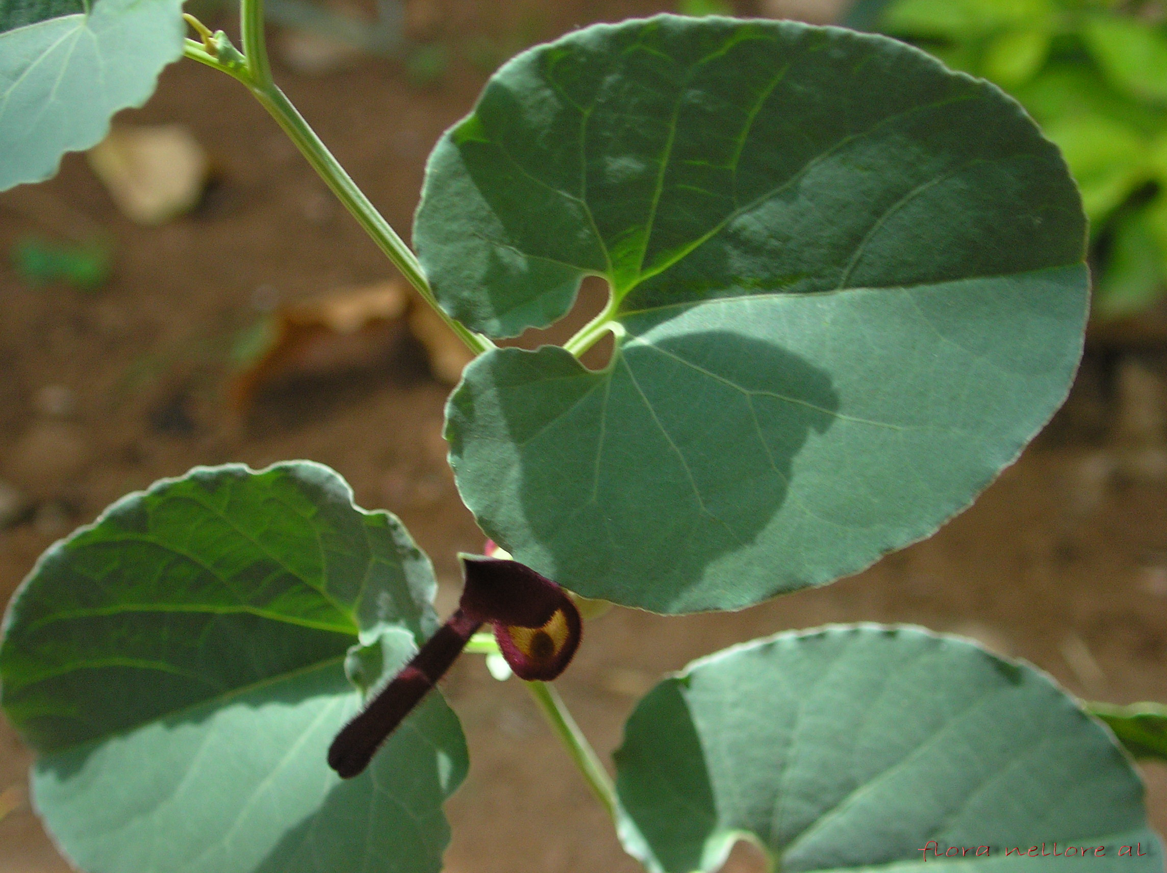 Family: Aristolochiaceae Local name(Telugu)Gadidagadapa, Nalla eswari Distribution: Common as a weed in tropical Asia and Africa A perennial prostrate herb, branches up to 30cm long, Leaves cordate-reniform, base cordate, Flowers solitary, axilary, dark purple, perianth tube4-5cm long, the tube inflatd below, then contracted in to a cylindrical neck, then expanded in a dialated oblique limb with revolute margins. Stamens 6 adnate and around the style column, ovary inferior 6 celled, ovules many 2 seriate, Fruit a septicidal capsule, 12 ribbed,splitting through placentas. Decoction of the roots and leaves are used as anthelmenticand for insect bites. Photographed at Nellore. Ref: Flora of Presidency of Madras By J.S.Gamble.